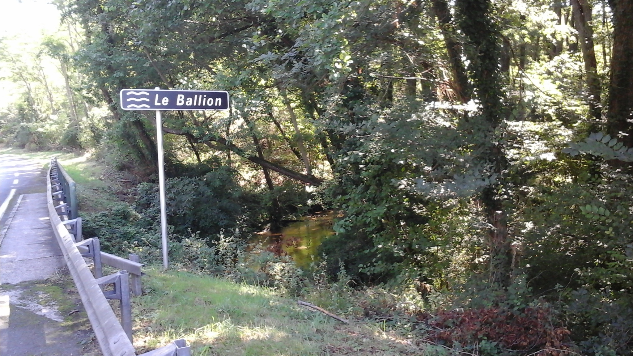 Le Ballion (also Le Baillon) looking upstream from the road between Saint-Symphorien and Villandraut.